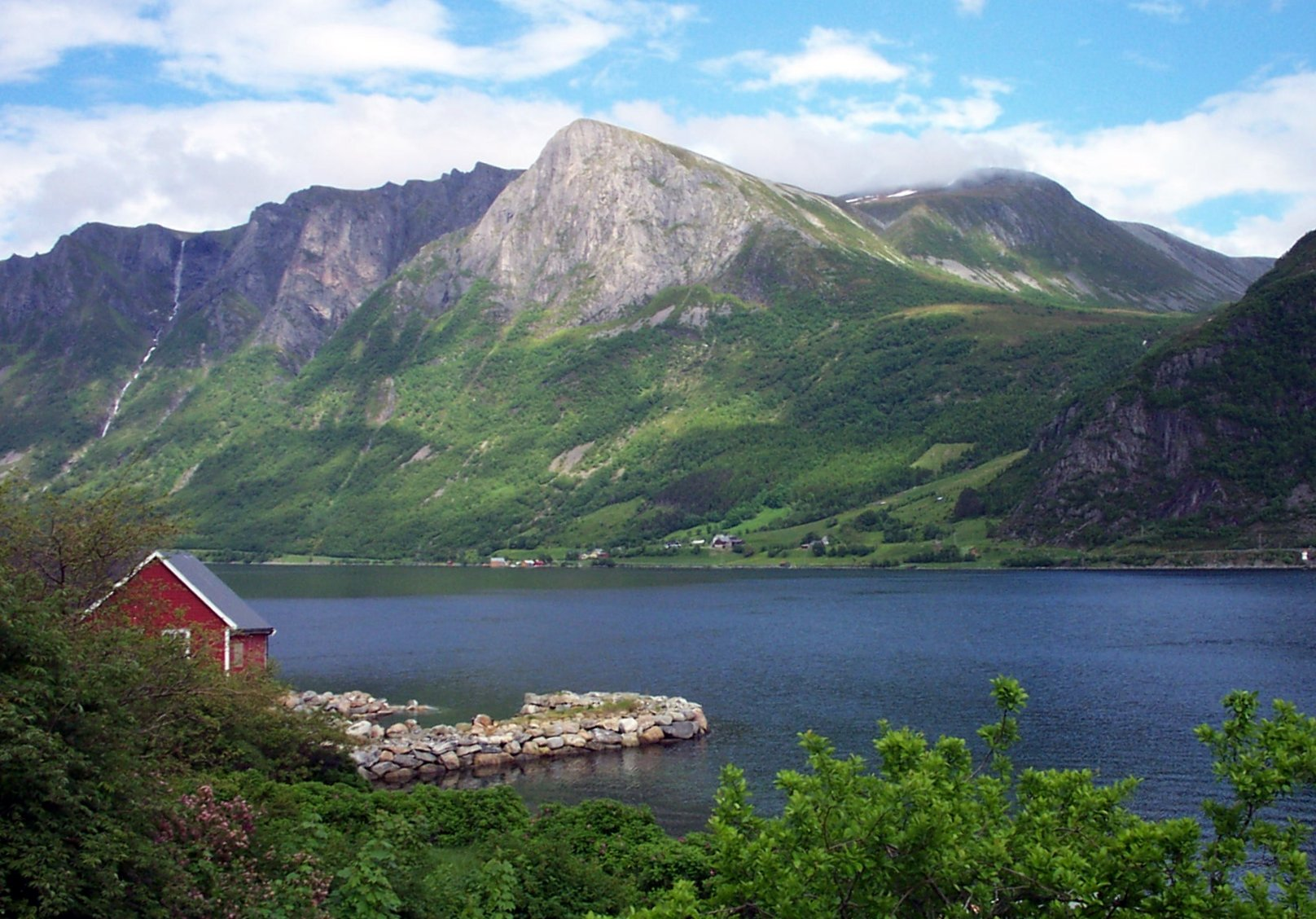 The Vanylvsfjord as seen from the village Eidså, in Norway.